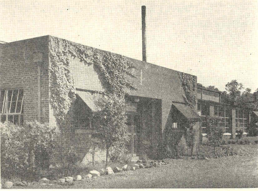 A laboratory building in Norris, Tennessee, USA. This building was originally built as a tradeshop, but remodeled as a laboratory in 1935. In the late 1930s, the building housed a hydraulic laboratory, a soil mechanics laboratory, a minerals testing laboratory, and an office for engineers who collected hydrological data for the Norris area.